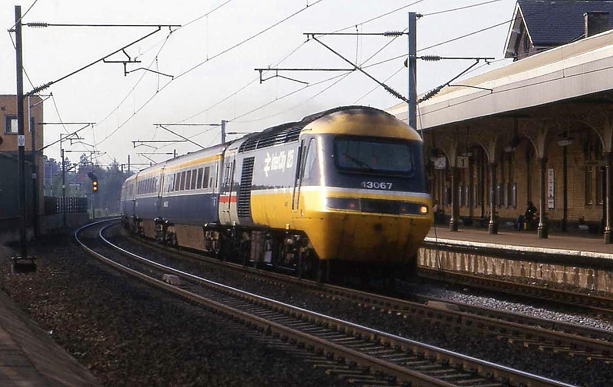 Retford,with wires